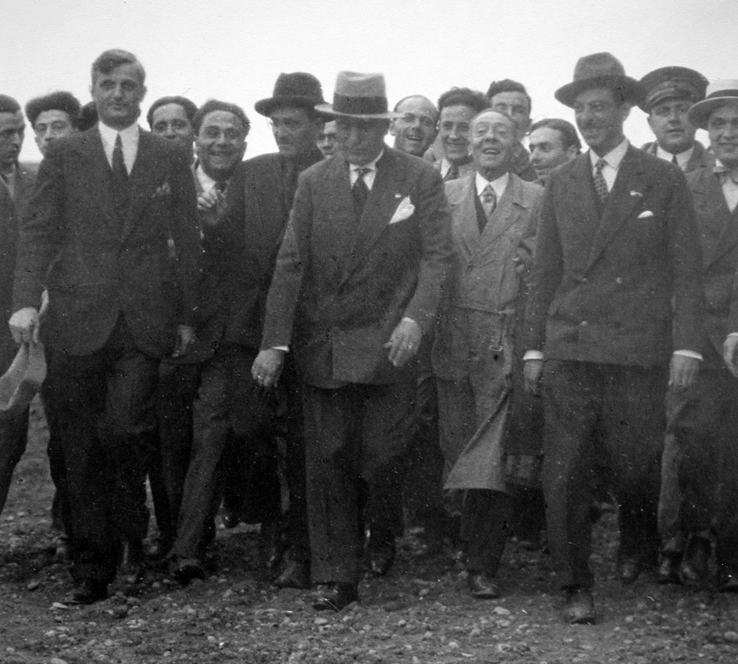 Benito Mussolini visiting Alfa Romeo, hosted by Prospero Gianferrari (3rd from right).